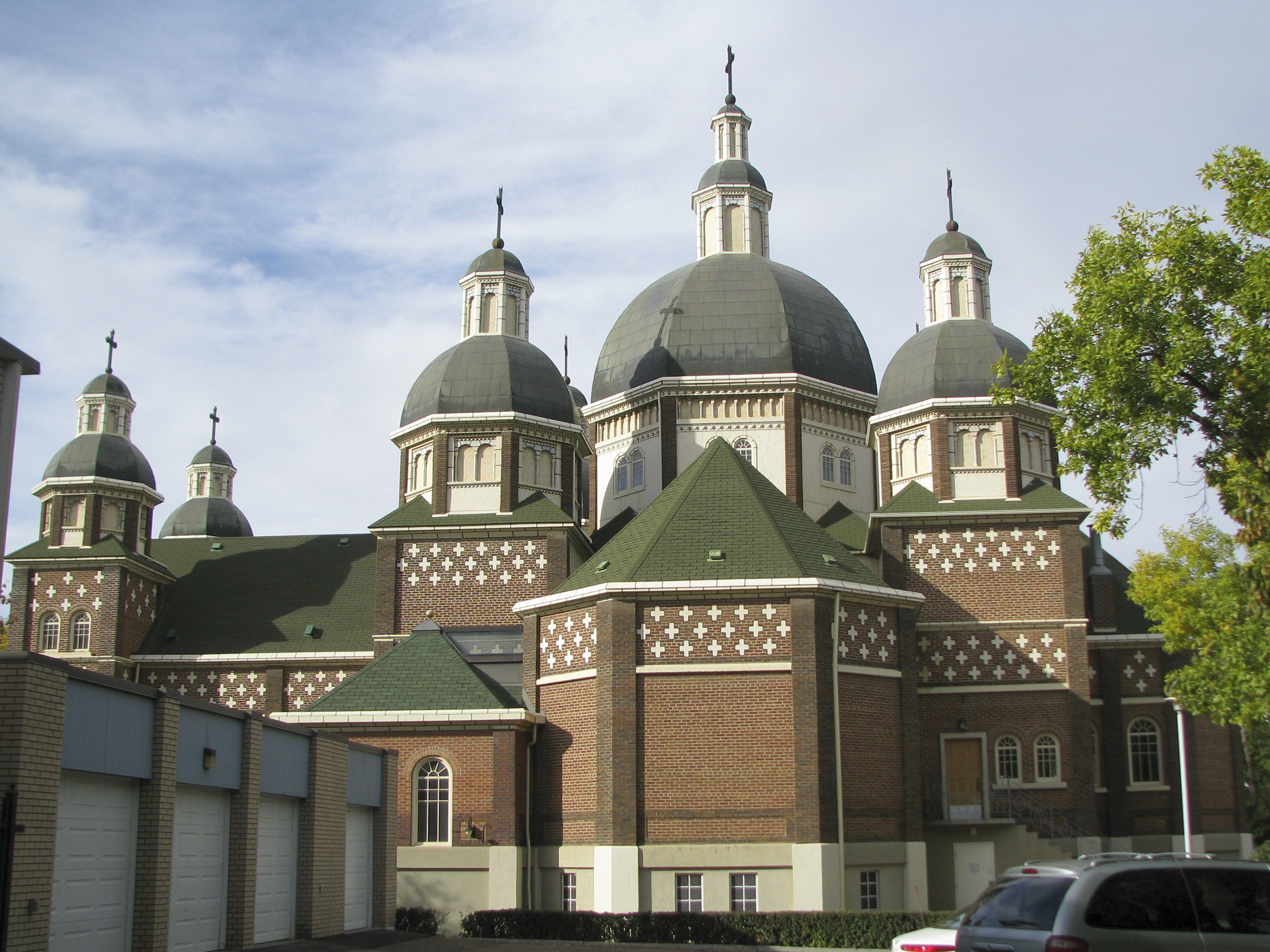 St. Josaphat Ukrainian Catholic Cathedral, 10825 - 97 Street, Edmonton Alberta. Side aspect, viewed from the south